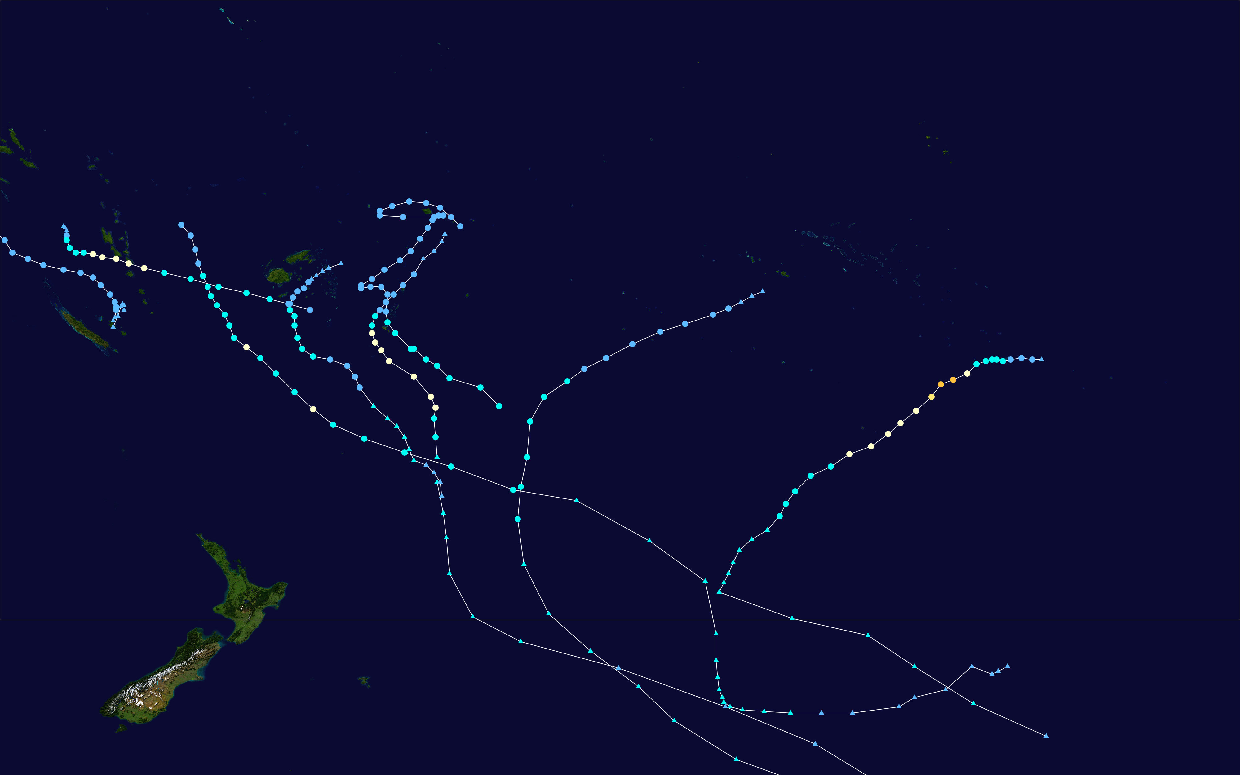 This map shows the tracks of all tropical cyclones in the 1999-2000 South Pacific cyclone season. The points show the location of each storm at 6-hour intervals. The colour represents the storm's maximum sustained wind speeds as classified in the Saffir-Simpson Hurricane Scale (see below), and the shape of the data points represent the type of the storm. Saffir–Simpson scale Tropical depression≤38 mph≤62 km/h Category 3111–129 mph178–208 km/h Tropical storm39–73 mph63–118 km/h Category 4130–156 mph209–251 km/h Category 174–95 mph119–153 km/h Category 5≥157 mph≥252 km/h Category 296–110 mph154–177 km/h Unknown Storm type Tropical cyclone Subtropical cyclone Extratropical cyclone / Remnant low / Tropical disturbance